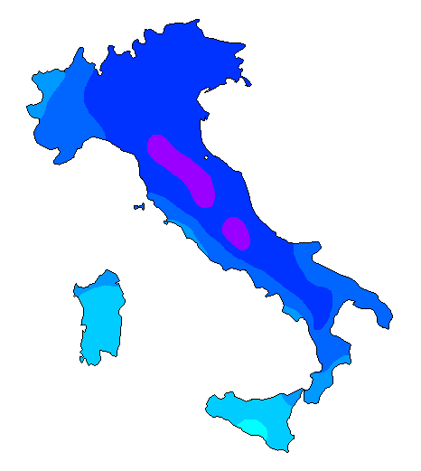 Map of daily sunshine hours in Italy in March